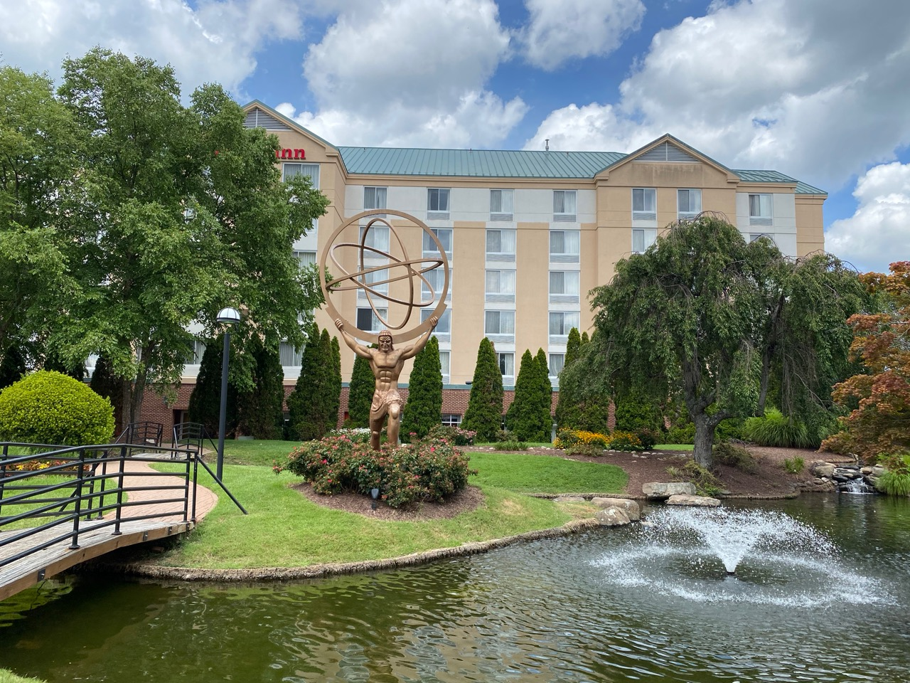 This Atlas statue was originally located at the Stony Point Fashion Park (outdoor mall) in Chesterfield, Va. The body is steel-framed fiberglass. The water feature is within the courtyard of the Innsbrook Shoppes located at the intersection of West Broad Street and Cox Rd in Western Henrico County.